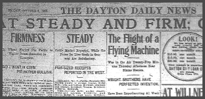 Portion of Dayton Daily News (newspaper) page 9 of October 6, 1905.